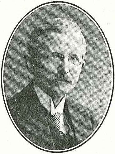 Bror Beckman (1866-1929), Swedish composer and professor.